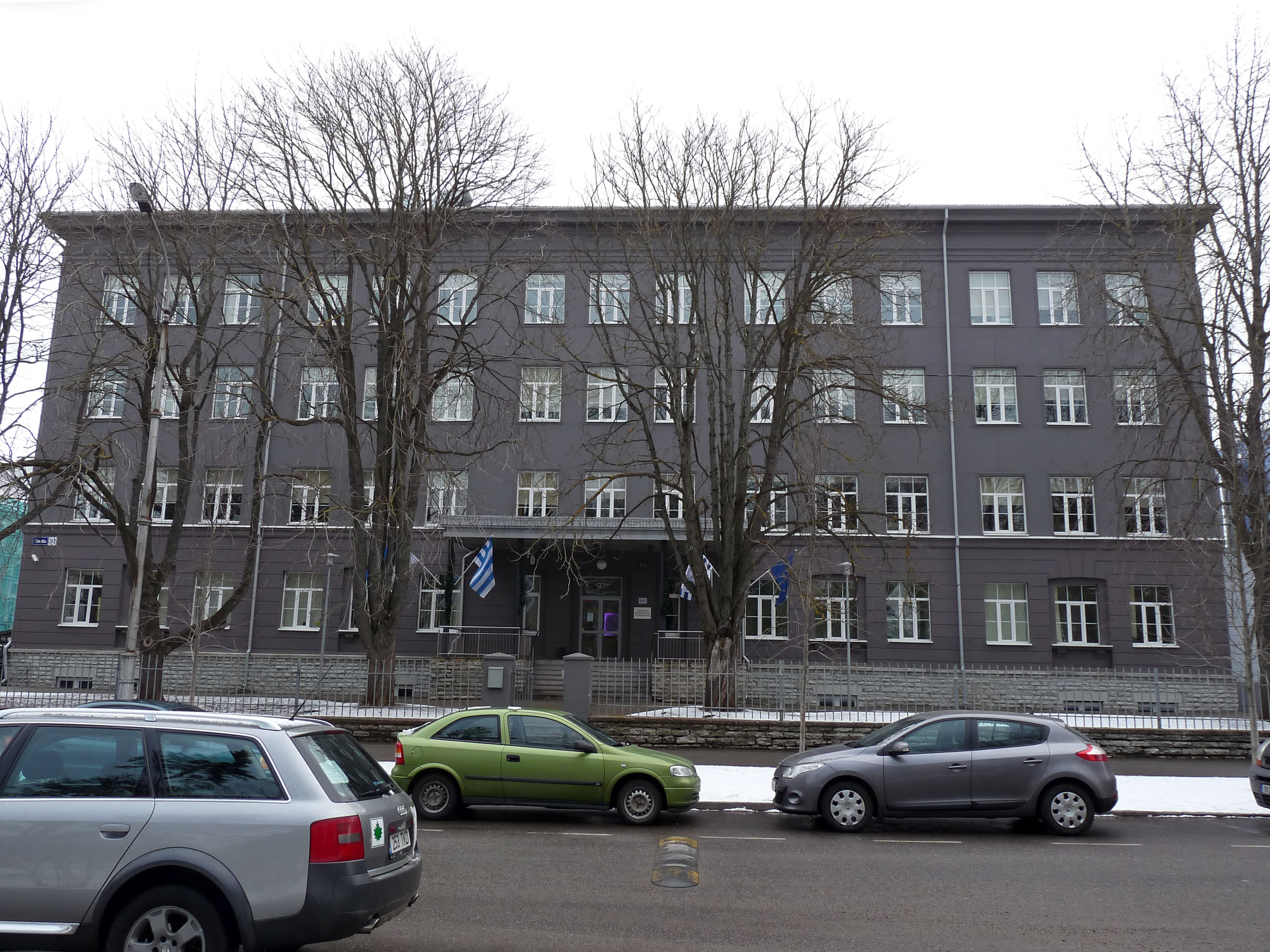 Main building of Tallinn Humanitarian Gymnasium